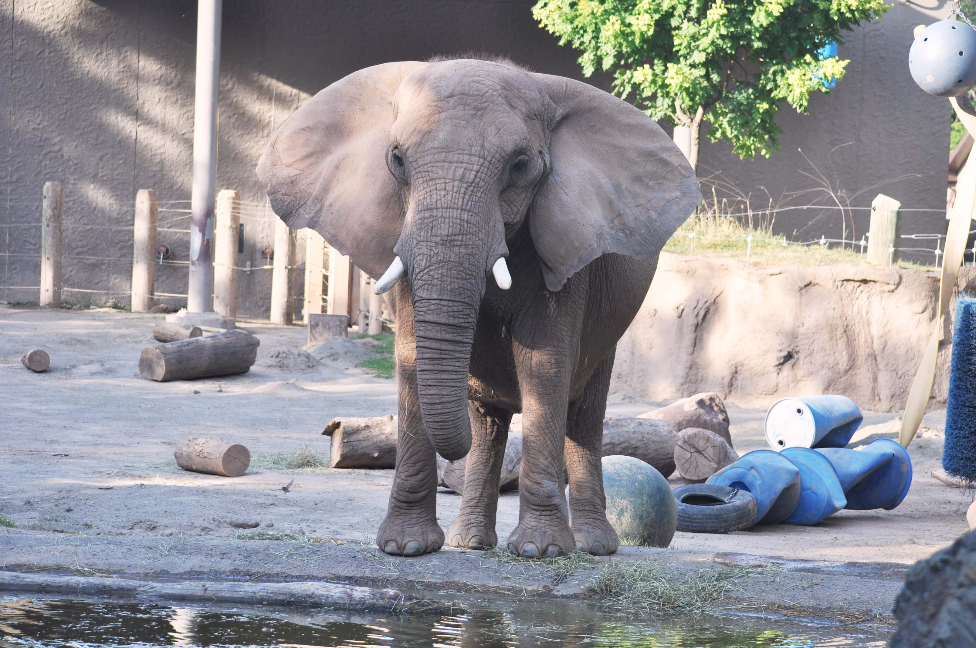 African elephant by the pool